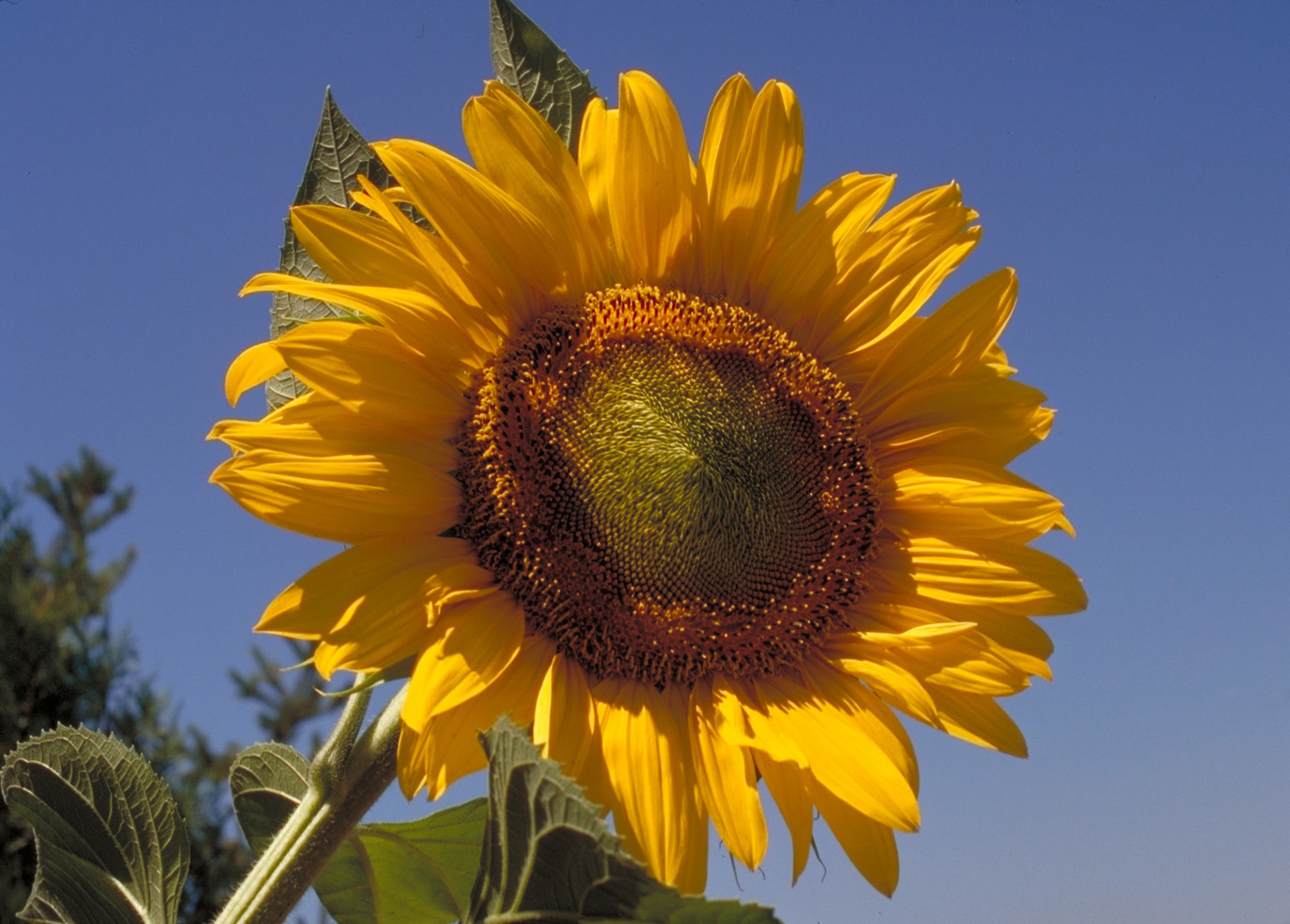 Photo taken by myself of a 13 foot tall Russian Sunflower that I grew.